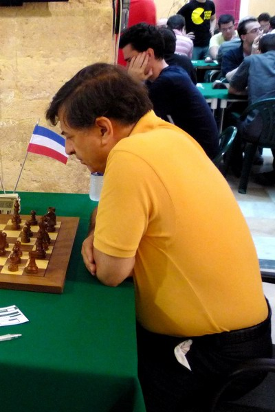 GM Ljubomir Ljubojević Serbia, Villarrobledo 2008